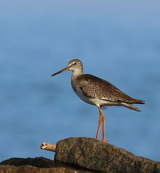 Red shank